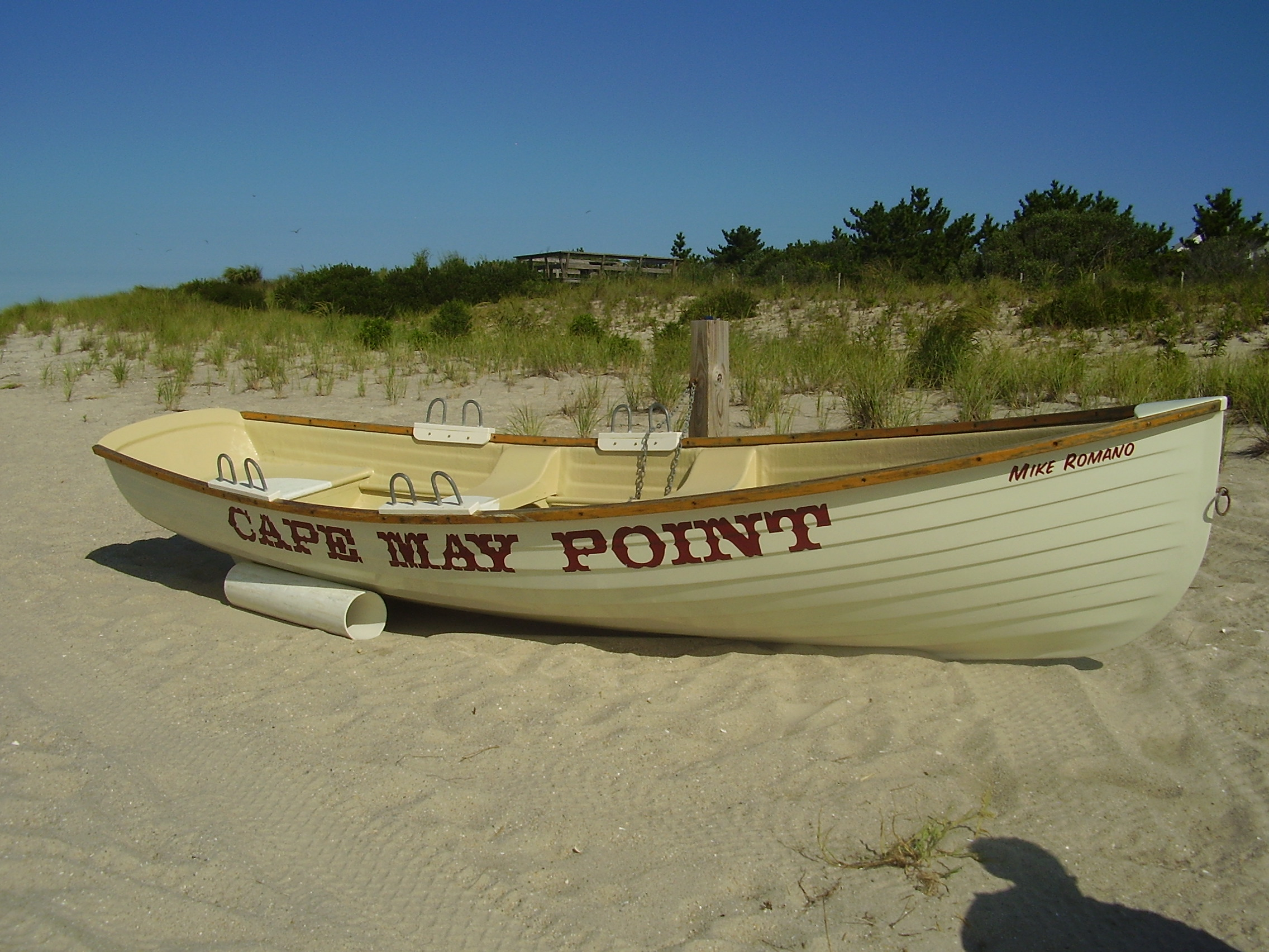 Cape May Point beach marked with a boat